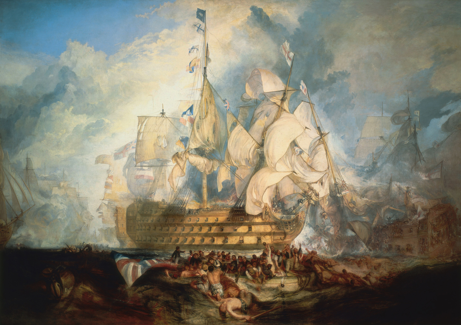 The painting combines events from several times during the battle. Nelson's famous signal "England expects..." flies from the Victory (11:50); the top-mizzenmast falls (13:00); the Achille is on fire in the background (late afternoon) and the Redoutable sinks in the foreground (following day). Turner shows the Victory flying her signal flags from the main-mast, although in actuality they would have been flown from the mizzen-mast and were replaced with the signal for "engage the enemy more closely" once the battle commenced.